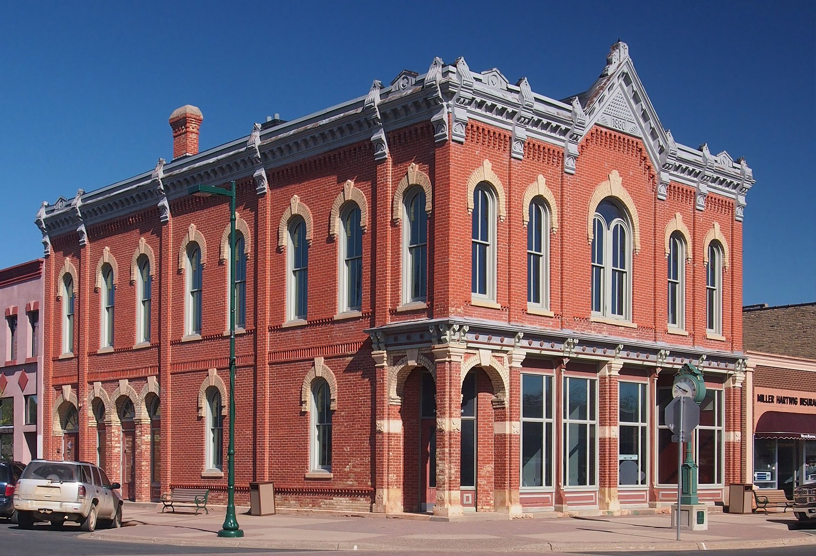 Exchange Bank Building, 344 3rd St, Farmington, Minnesota, USA. Viewed from the southeast.